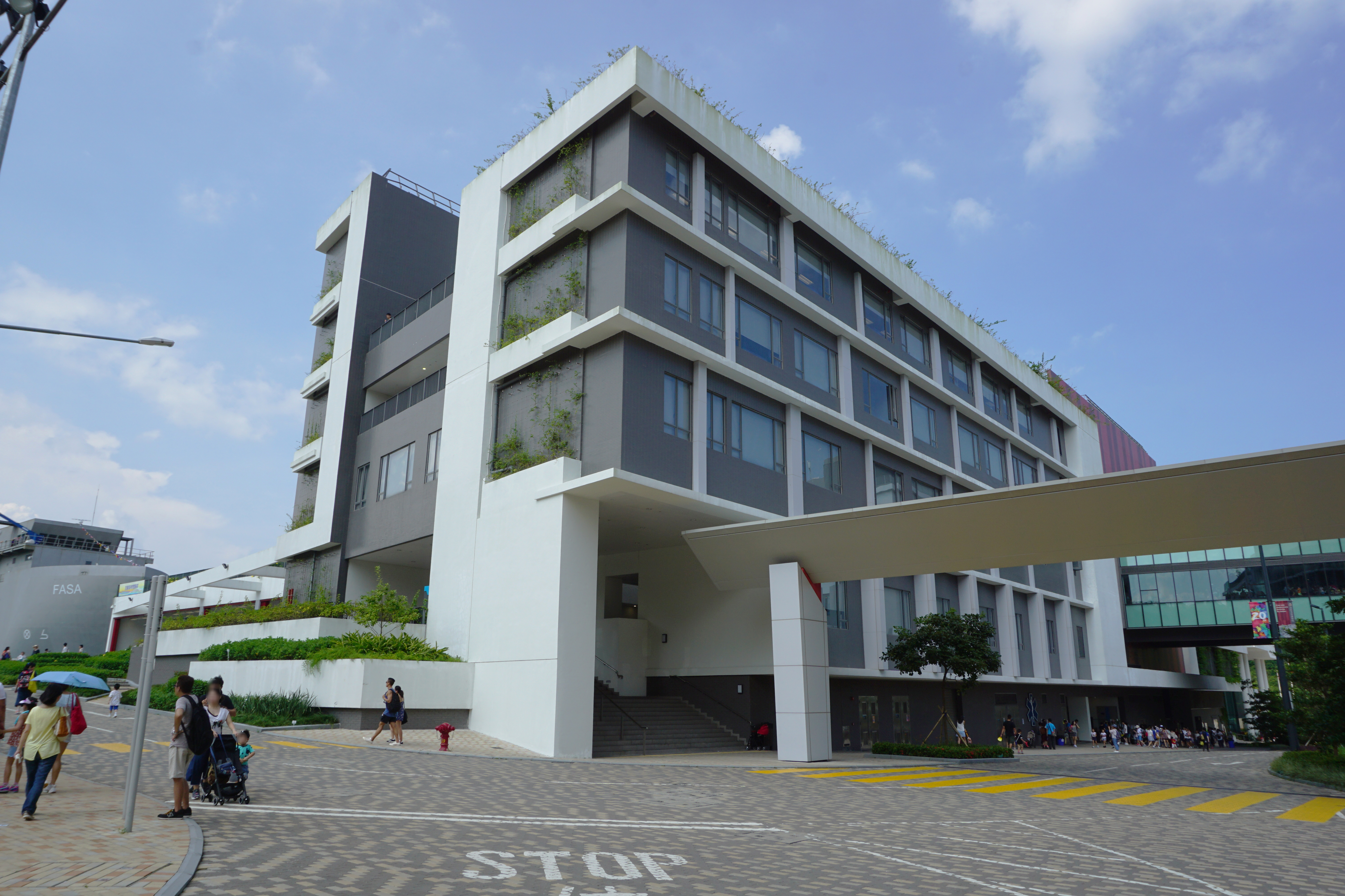 Fire and Ambulance Services Academy in Pak Shing Kok, Hong Kong.